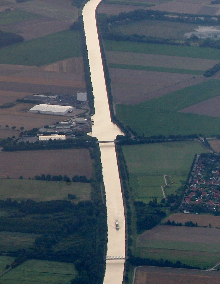 Mittelland canal with port Kolenfeld (Wunstorf), west of Hanover, Germany.